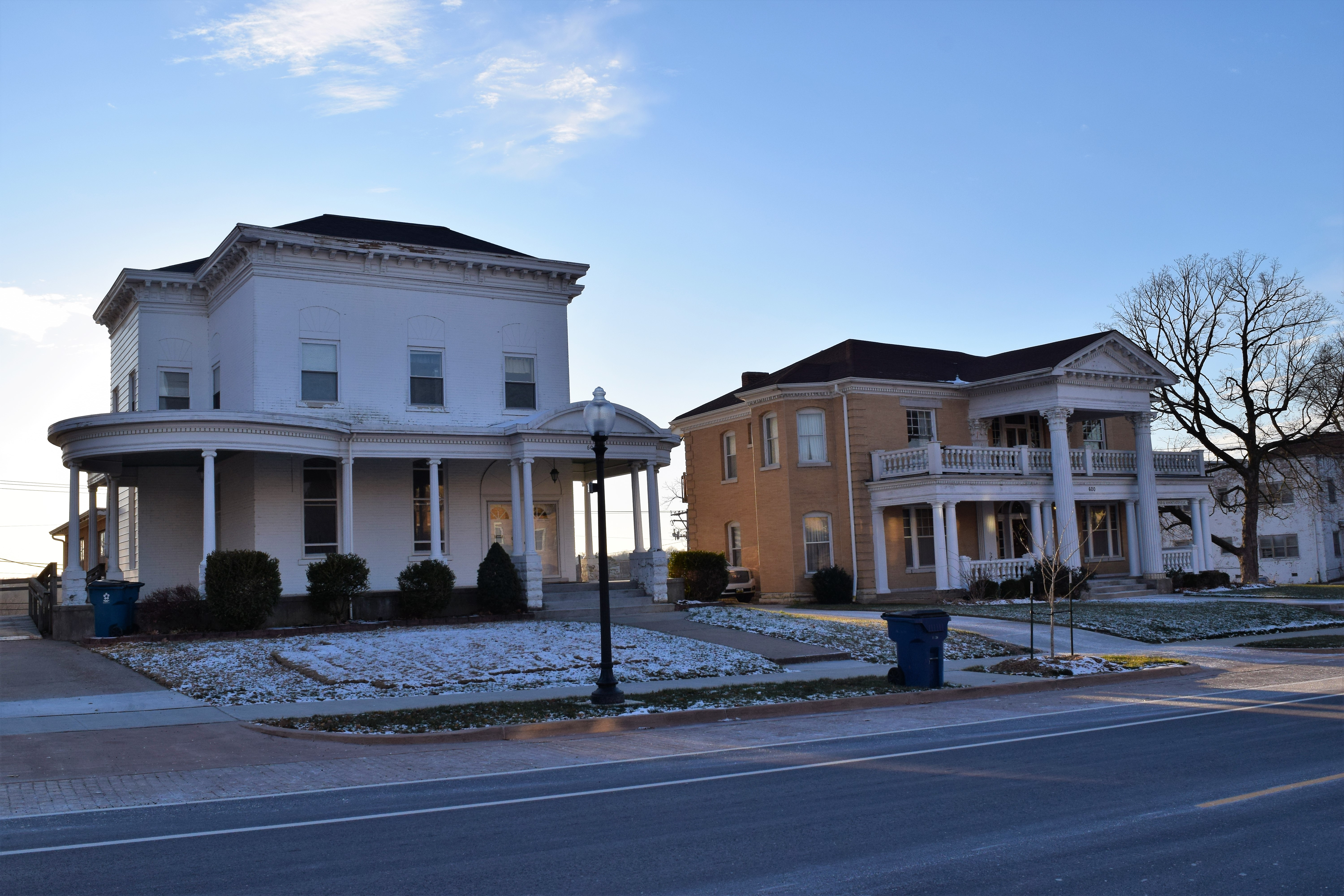 Houses at 600 and 606 East Capitol Avenue in Jefferson City, Missouri. The houses are part of the Capitol Avenue Historic District, which is listed on the National Register of Historic Places.